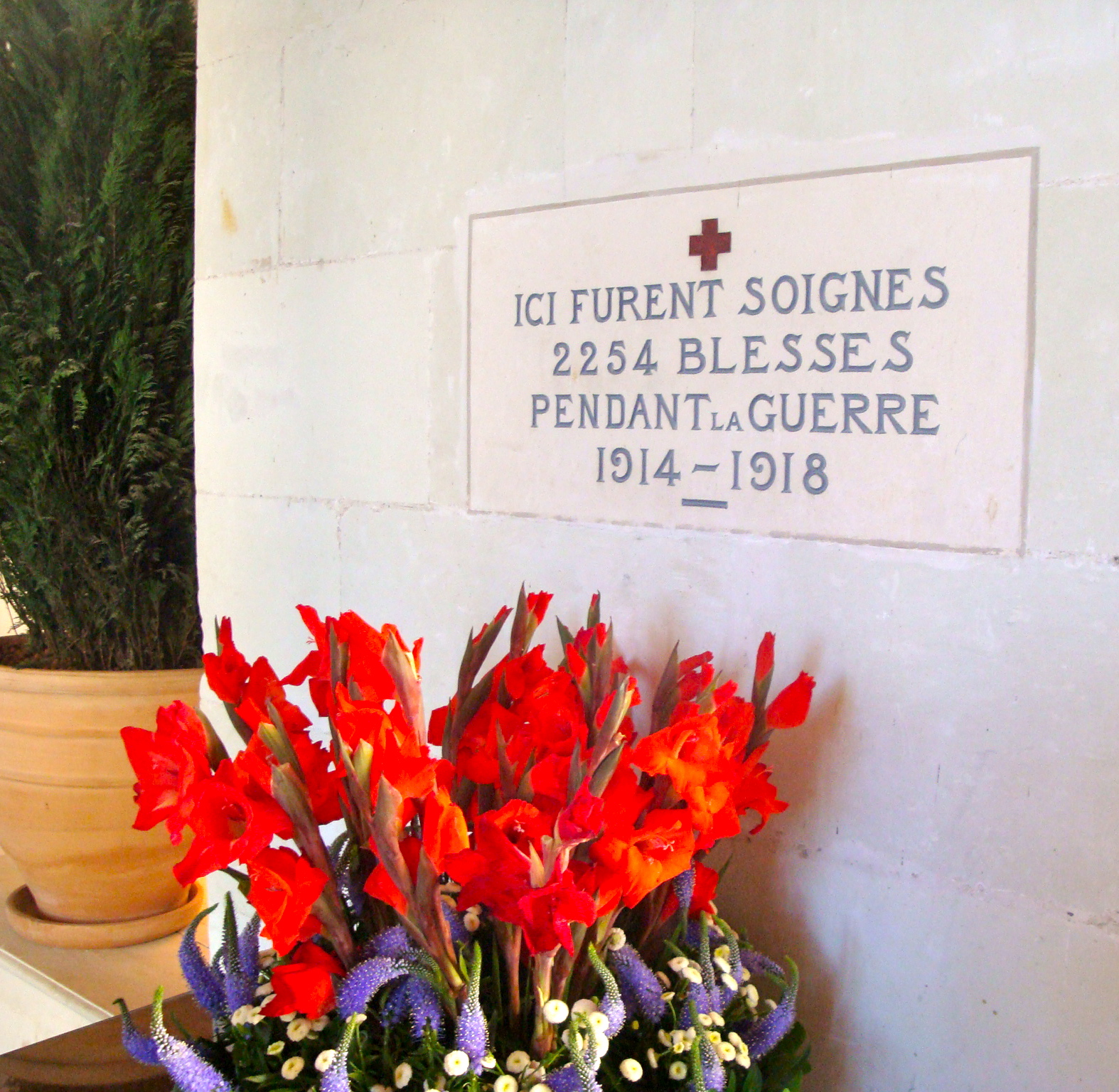 A plaque in the Grand Gallery explaining that during World War I, the chateau served as a military hospital